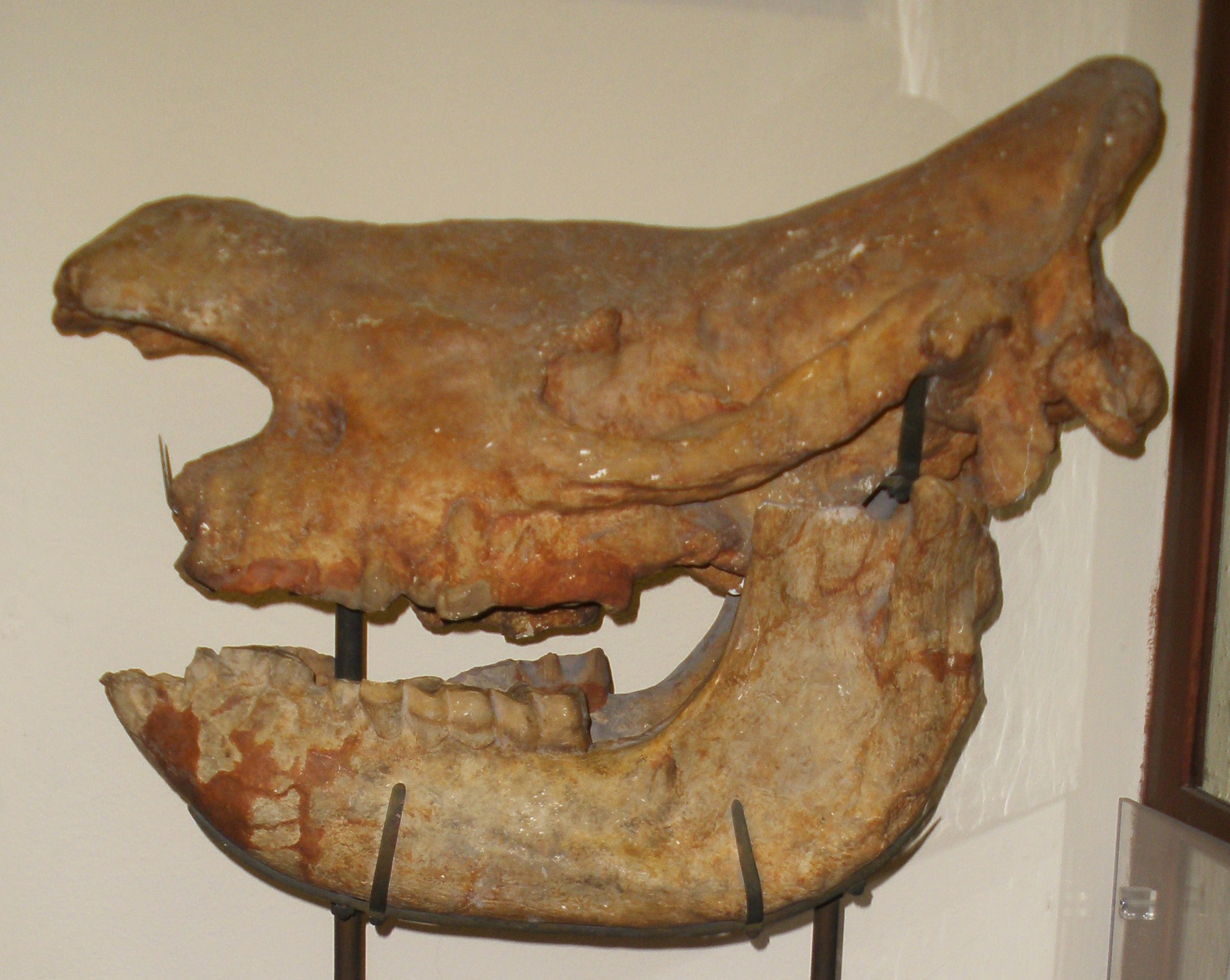 Fossil of Diceros pachygnathus (Ceratotherium neumayri), an extinct rhino